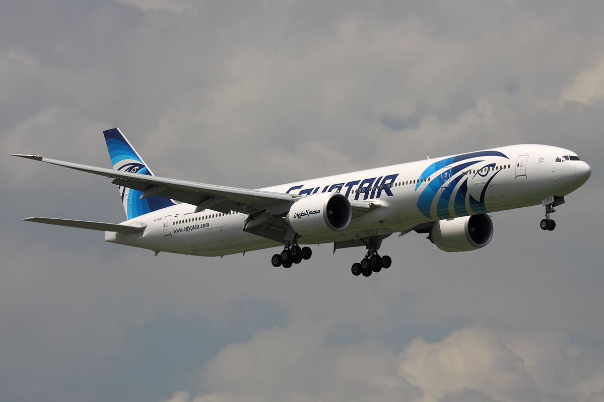 An EgyptAir Boeing 777-36N/ER approaches Suvarnabhumi International Airport (BKK / VTBS)